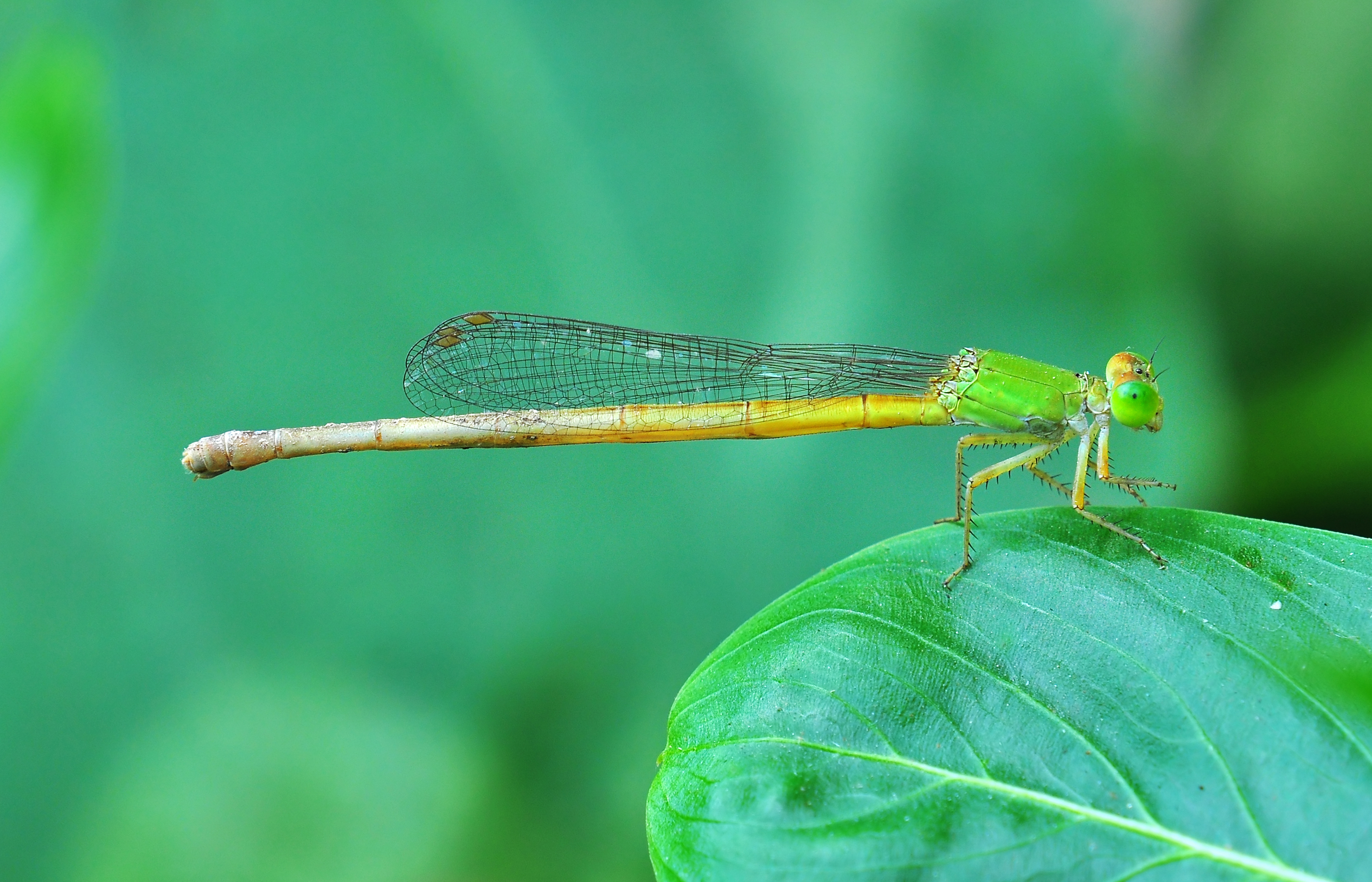 Coromandel Marsh Dart Ceriagrion coromandelianum (female) is a medium sized pale green damselfly with yellow tail. Thorax is olive green above merging to yellow on sides, underside is white. Legs are yellow with black spines. Common along the banks of ponds, rivers and canals. Also found frequently far away from water bodies. Breeds in shallow water bodies with profuse growth of grass and other aquatic plants. Flies throughout the year and distributed throughout the Oriental region. Taken at Burdwan, West Bengal, India.